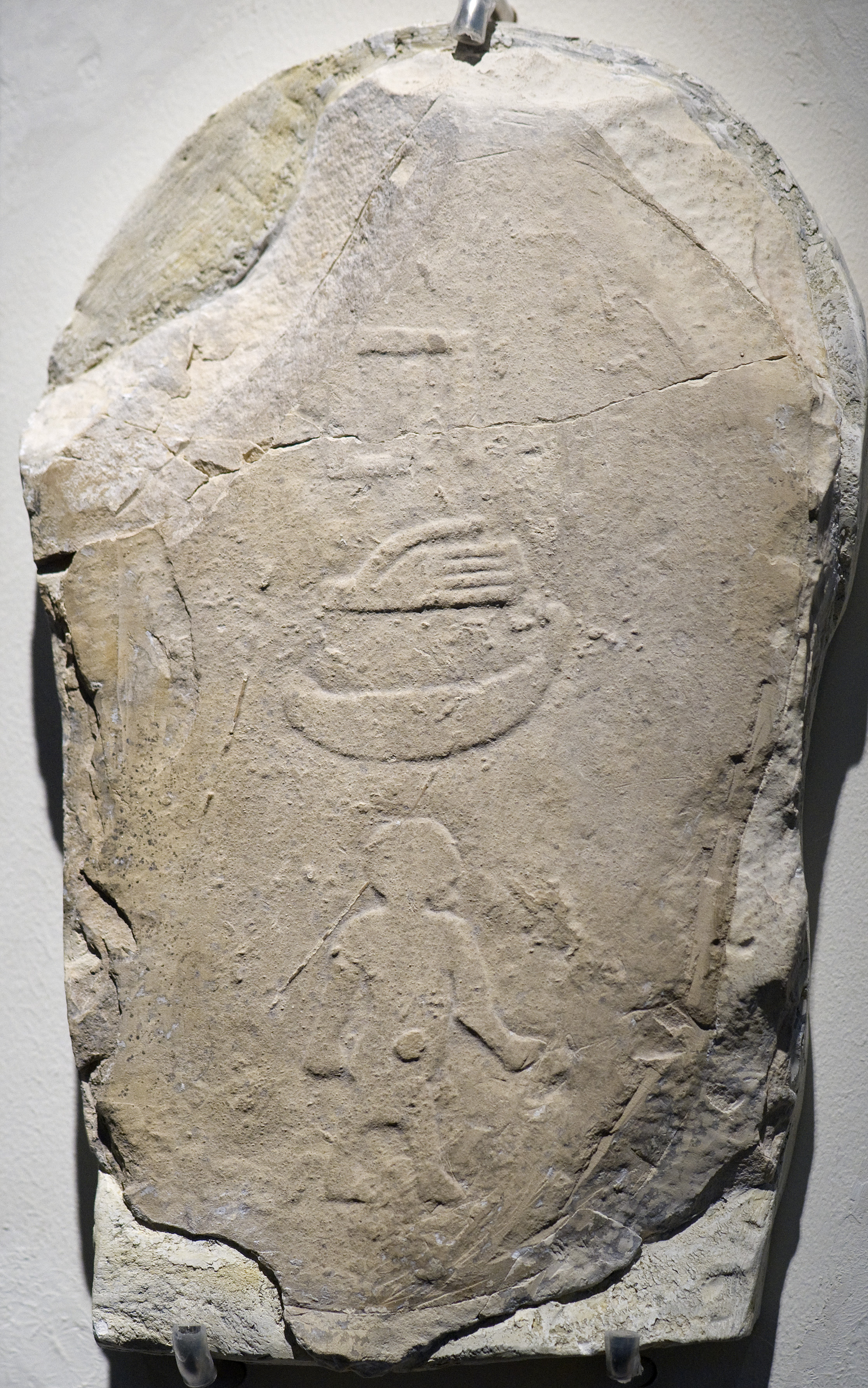 Stele hieroglyph depicting the court dwarf Hed, who died with his master (RMO Rijkmuseum at Leiden abydos, found in the tomb of the Egyptian Pharaoh Den, 2850 BCE, 1d)